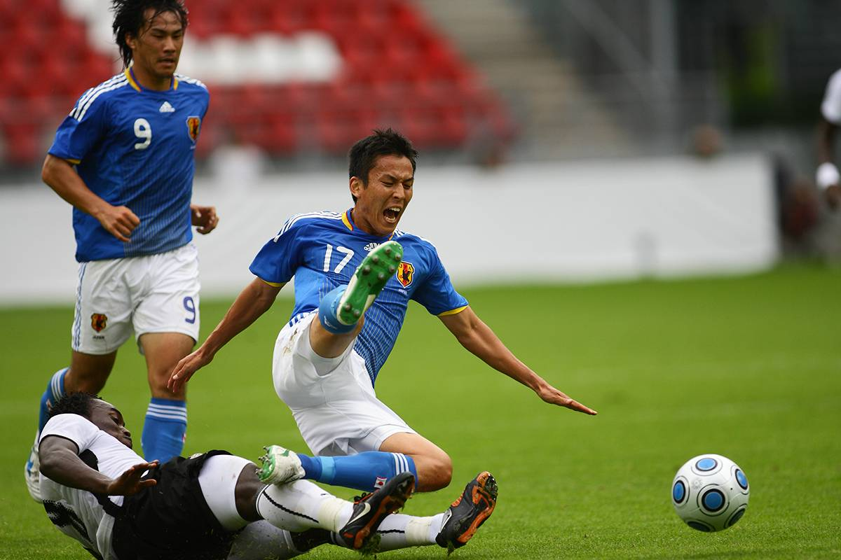 SEPTEMBER 9, 2009 - Football : Makoto Hasebe of Japan in action during the international friendly match between Japan and Ghana at Galgenwaard Stadium on September 9, 2009 in Utrecht, Netherlands. (Photo by Tsutomu Takasu)